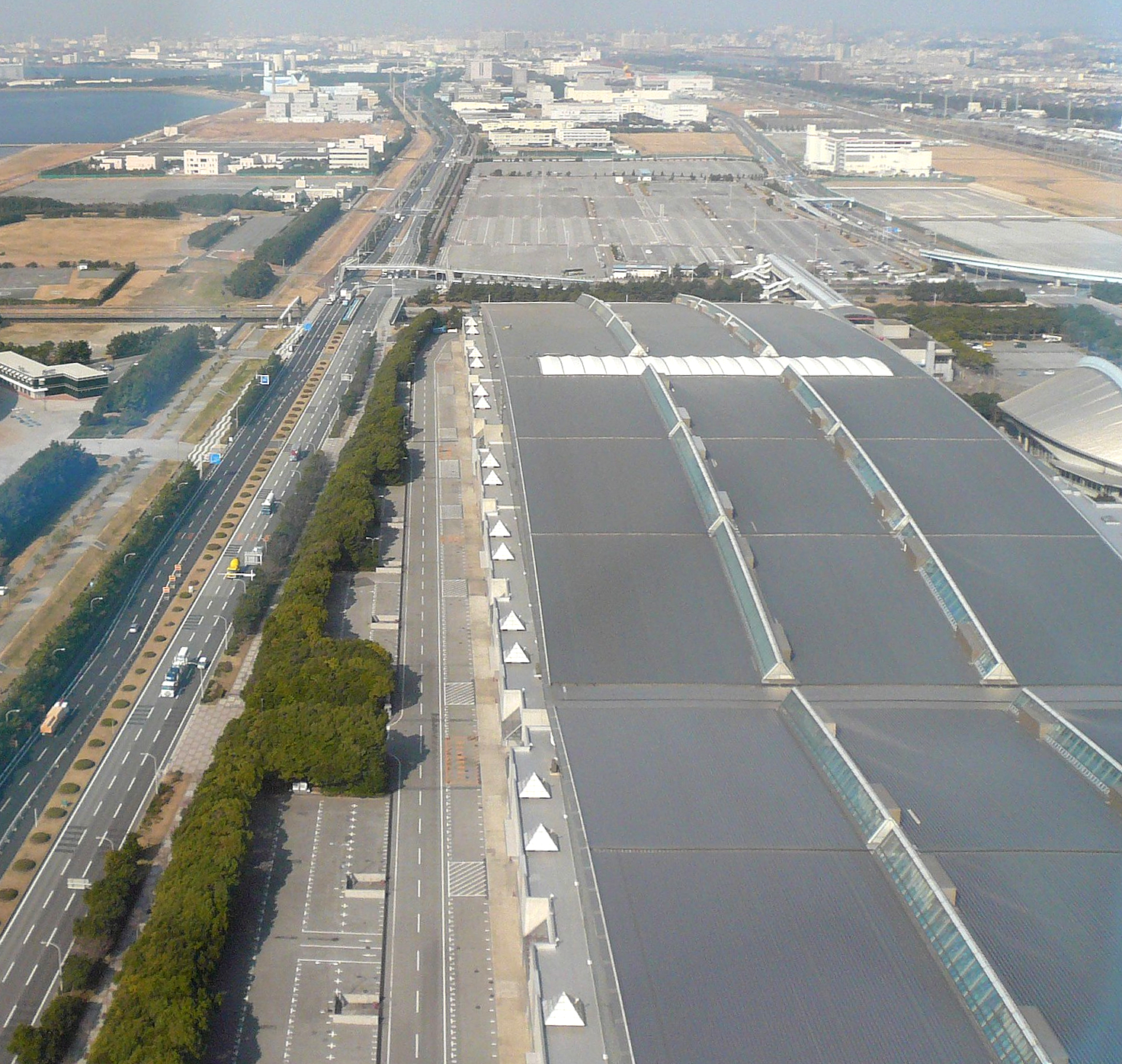 Cropped version of [:File:Makuhari Messe ^ Bay Stadium (幕張メッセとベイスタジアム) - panoramio.jpg] to focus on the roof of Makuhari Messe. The roof is made of ferritic stainless steel NSSC 220 of Nippon Steel Corp (平松 博之 (2009). "新日本製鐵のステンレス鋼研究30年を振り返って" (pdf). 新日鉄技報: 83. 日本製鉄.).